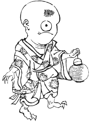 Hitotsume-kozō (一つ目小僧) from the Bakemonochakutōchō (夭怪着到牒)